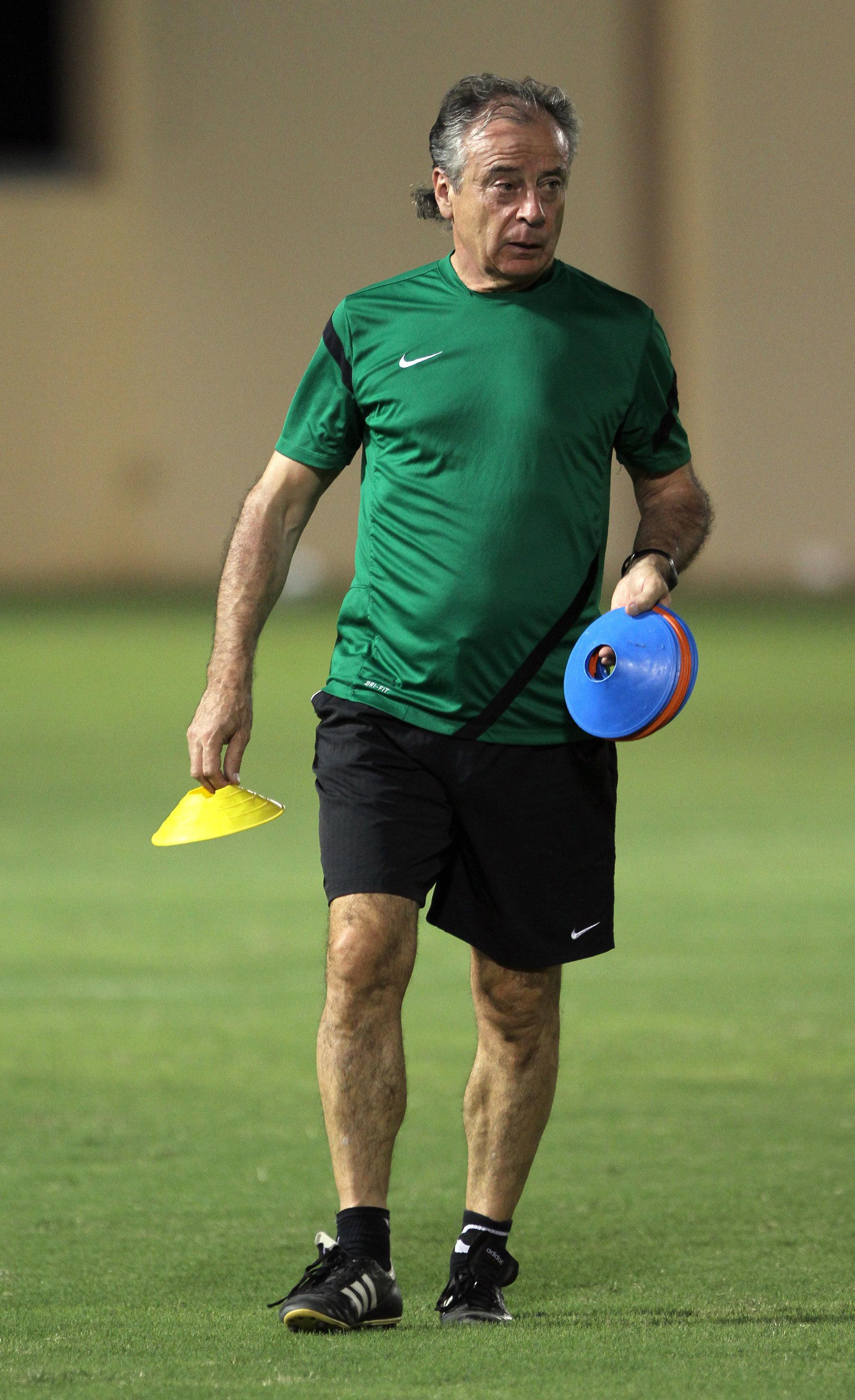 Umm Salal's French coach Bertrand Marchand prior to his team's training session. Picture by Vinod Divakaran